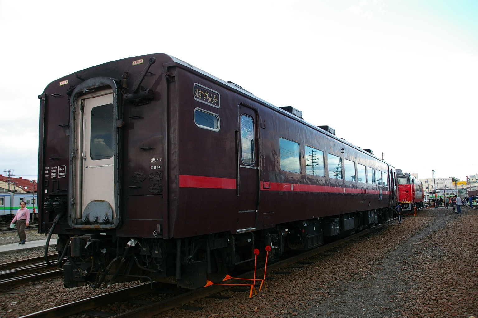 JR hokkaido SU HA FU 14 505 exhibiting in naebo rail yard.